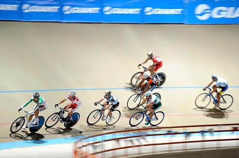 Track Cyclists ride around in the Mashhad Samen Velodrome.